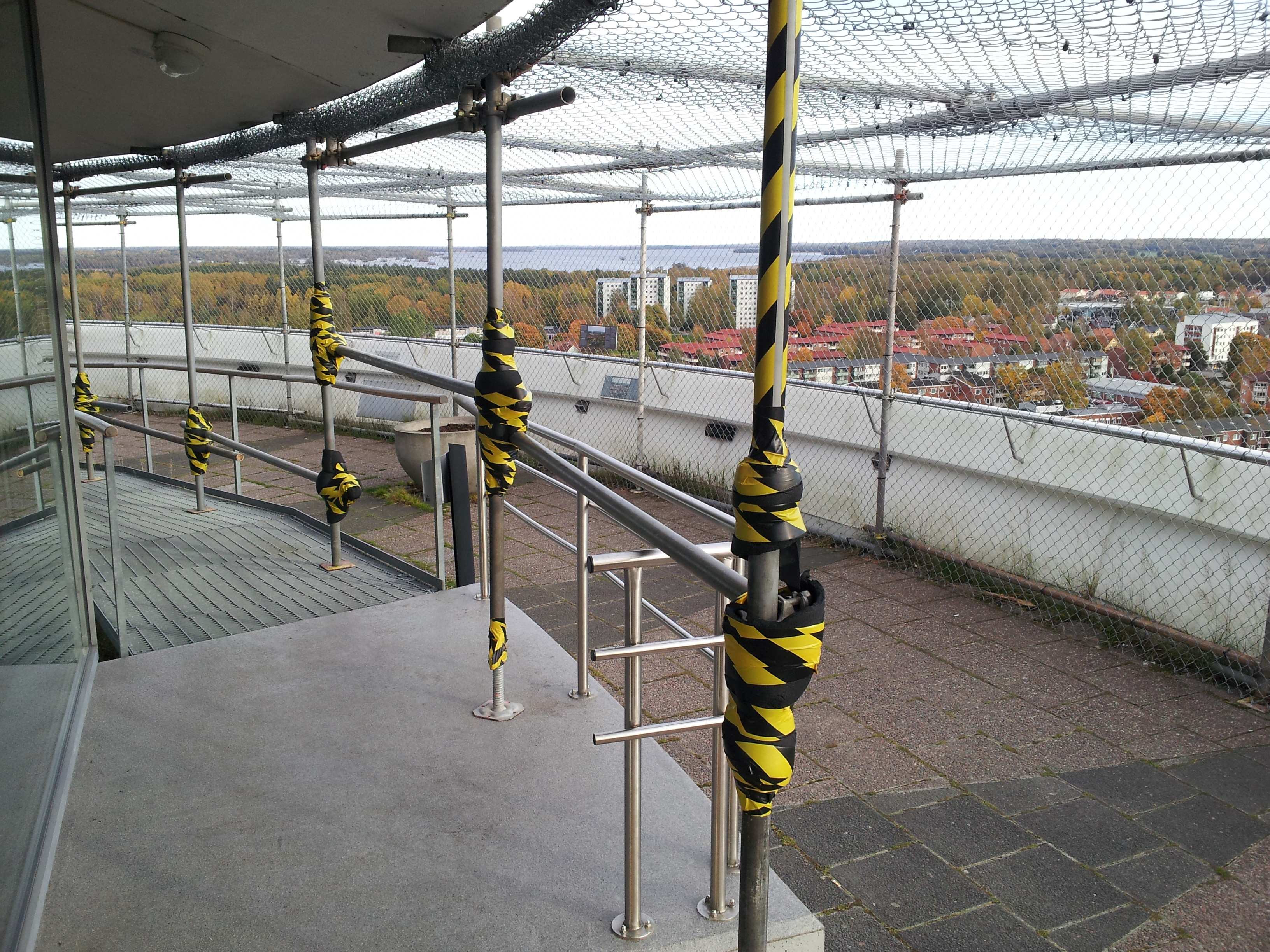 The fencing put up in 2012, which is to protect from suicide jumpers. Water tower Svampen, Örebro, Sweden.